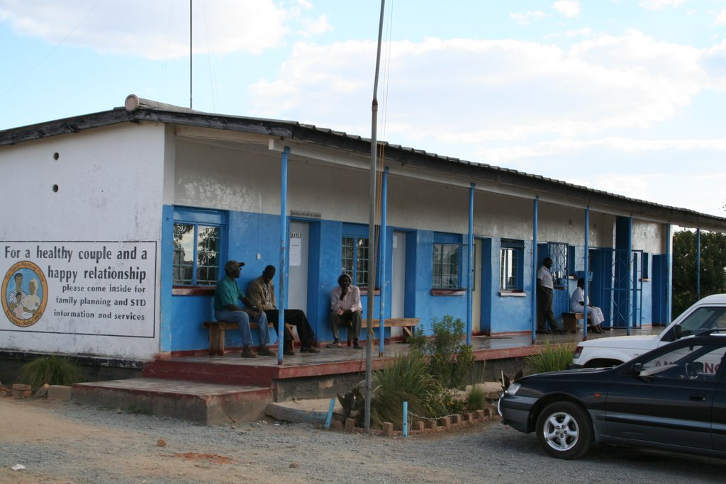 Hospital in Kalomo town, southern province, Zambia